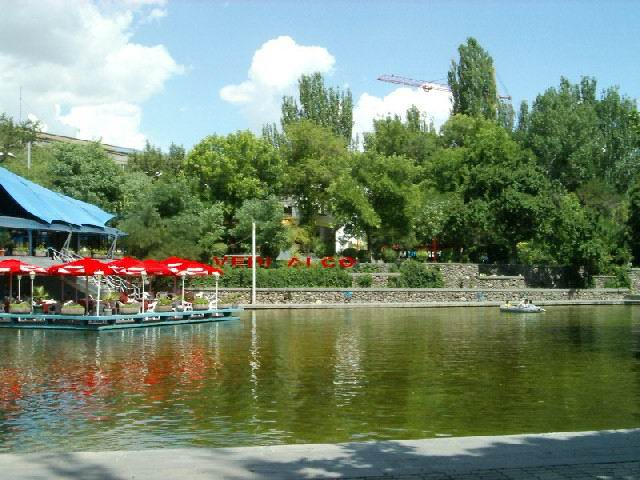 Circular park, Yerevan